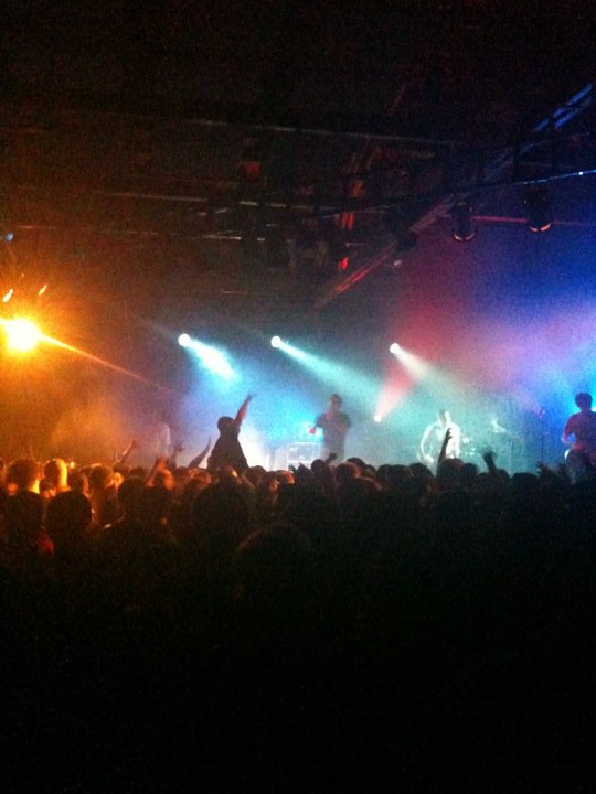 For Today set at Scream The Prayer 2010 in Pomona, CA.